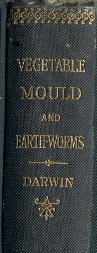 De kaft van het boek 'The Formation of Vegetable Mould through the Action of Worms - with Observations on their Habits' van Charles Darwin